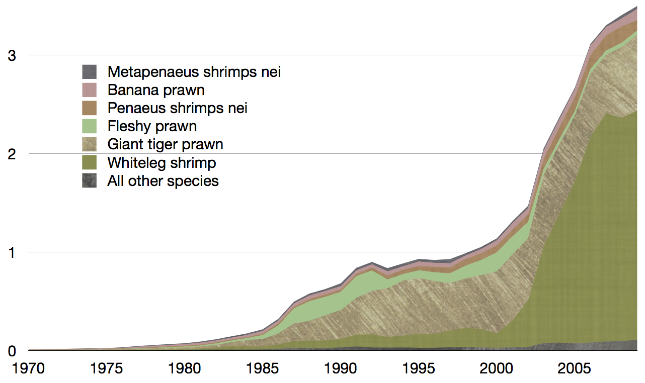 Global aquaculture production of shrimp and prawn species in million tonnes, 1970–2009, as reported by the FAO. Based on data sourced from the FishStat database